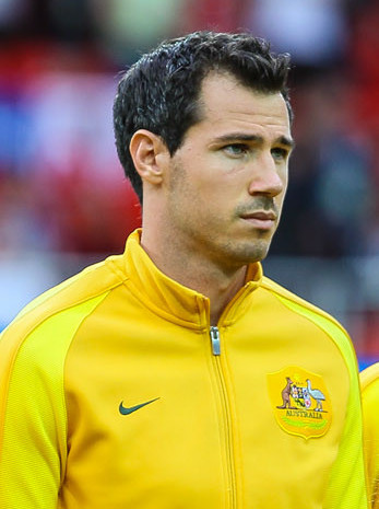 Chile VS. Australia 1 - 1, 25 June 2017